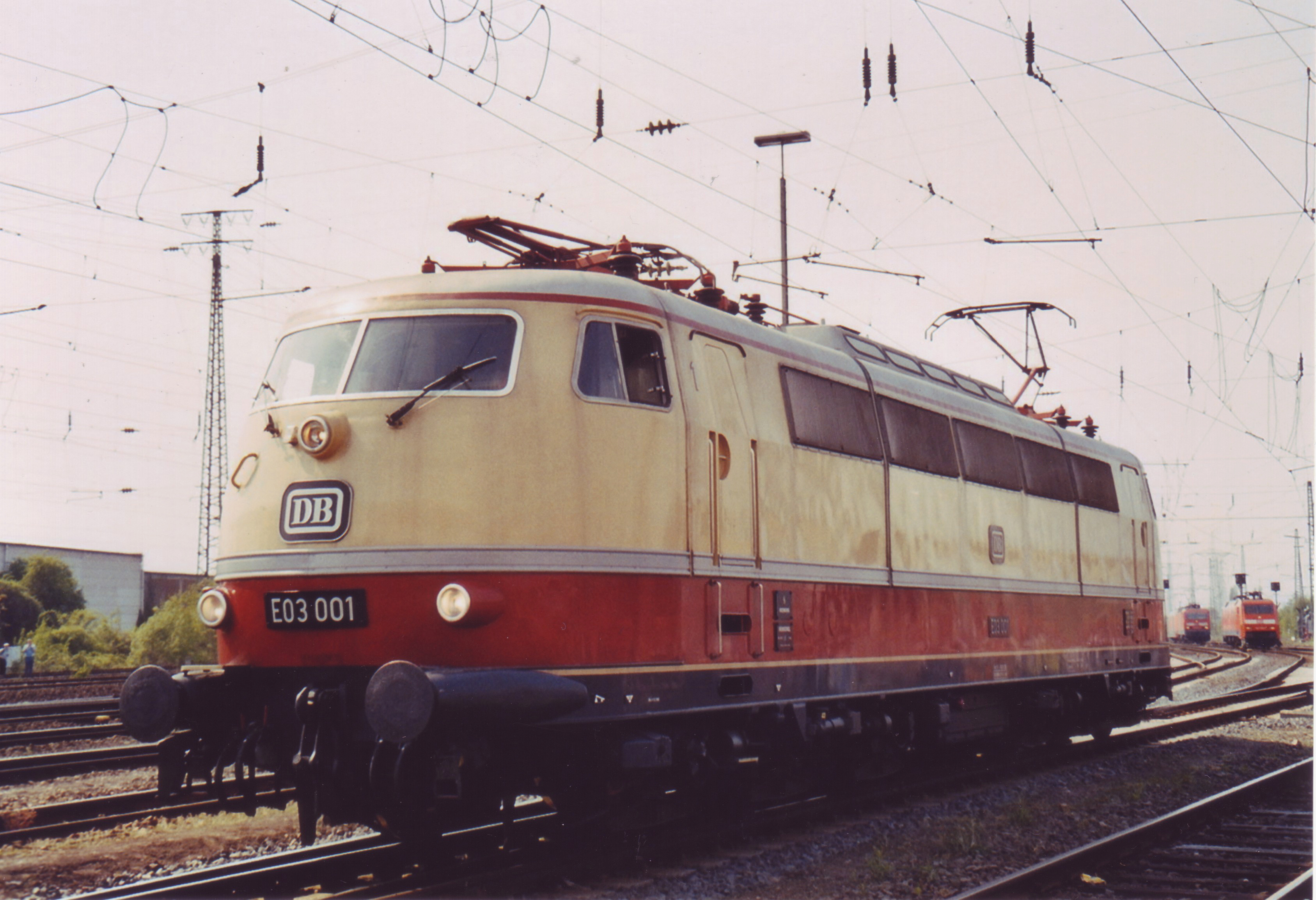 Electric locomotive 103 001 during a locomotive parade at the DB Museum in Koblenz-Lützel, a local branch of the Transport Museum in Nuremberg, May 2006